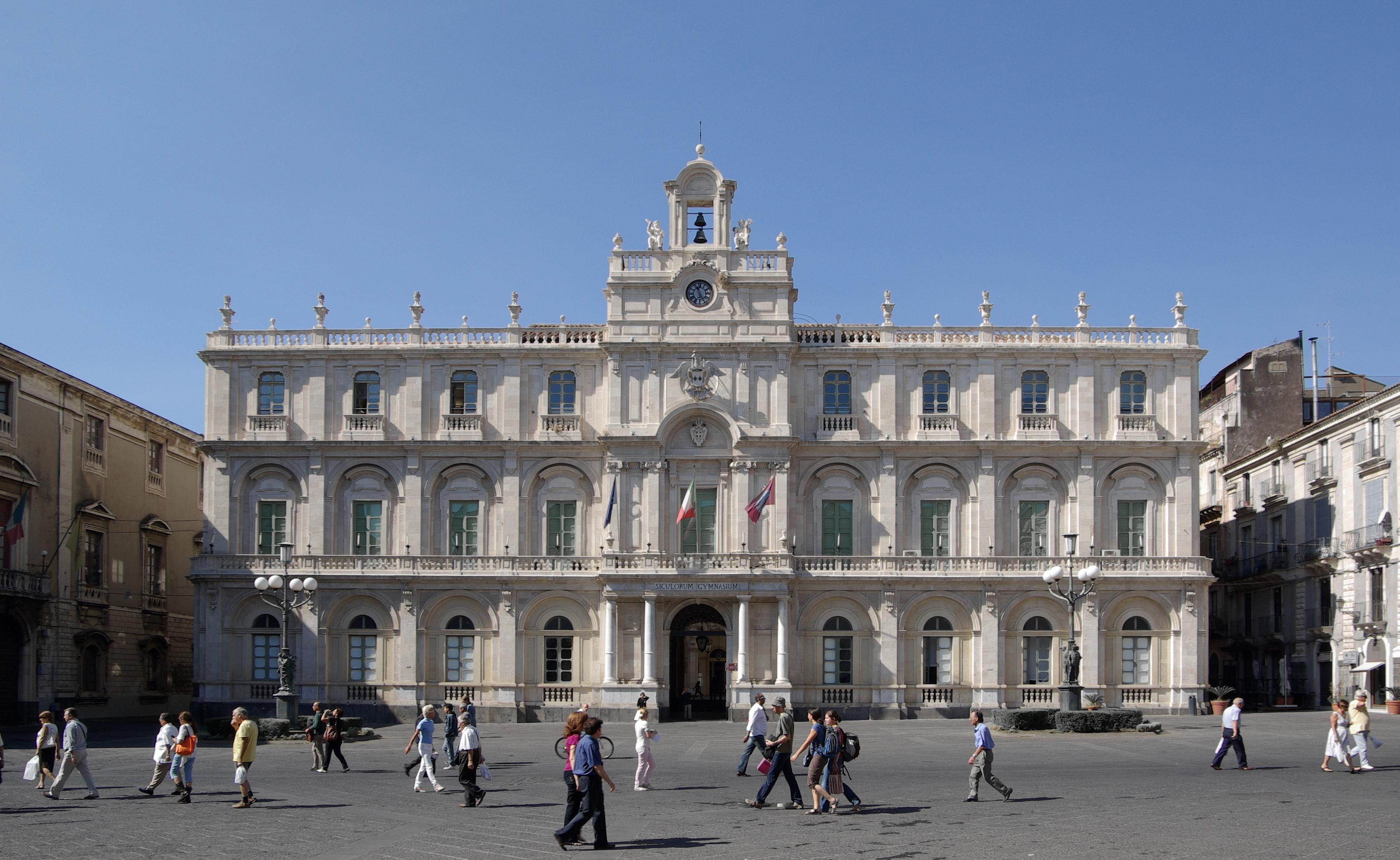 Italy, Sicily, Catanaia, Palazzo dell'Università